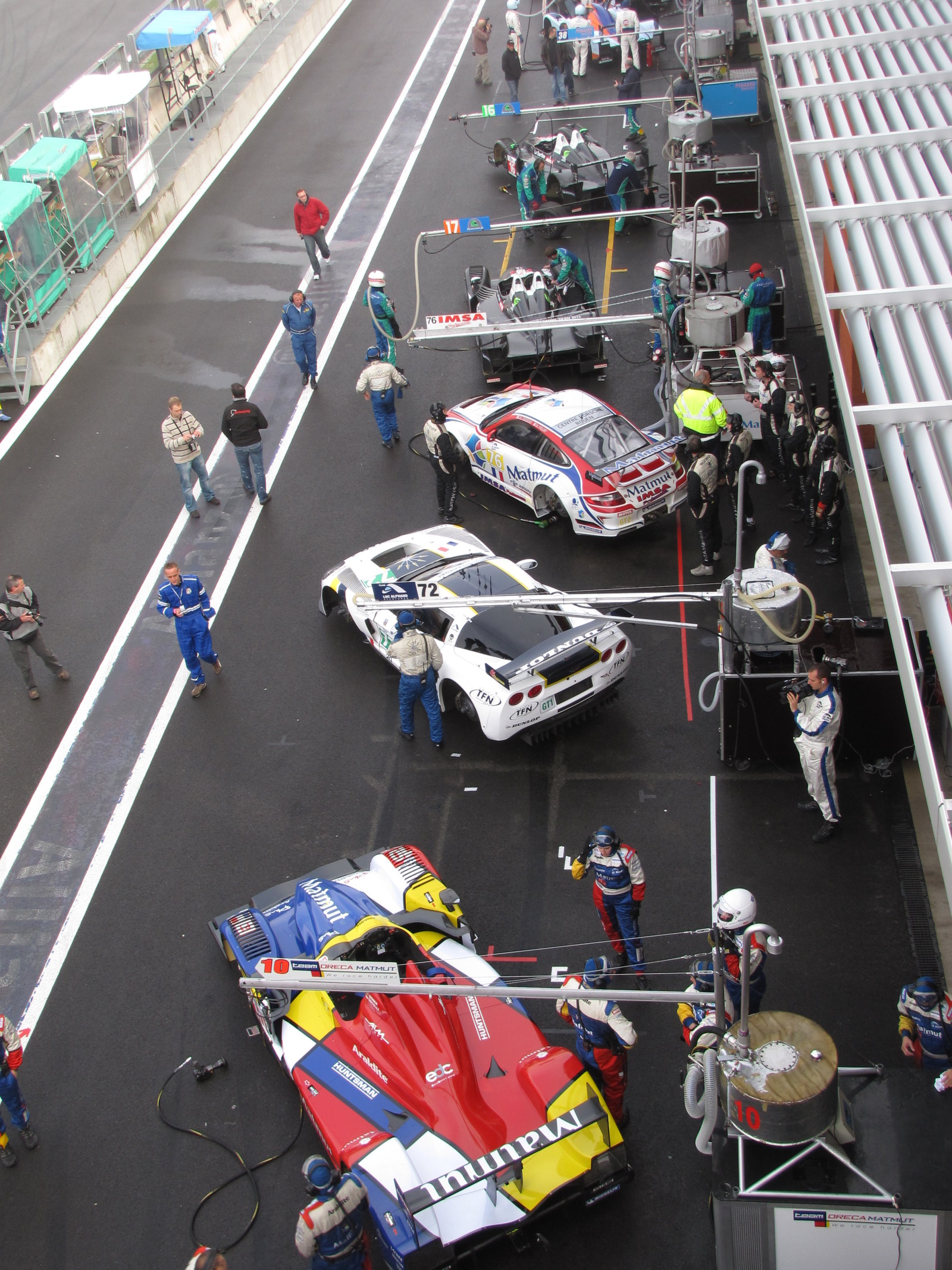 Picture of activities before the Warmup session of the 1000 km of Spa. Several minutes before the WarmUp was canceled due to heavy fog.